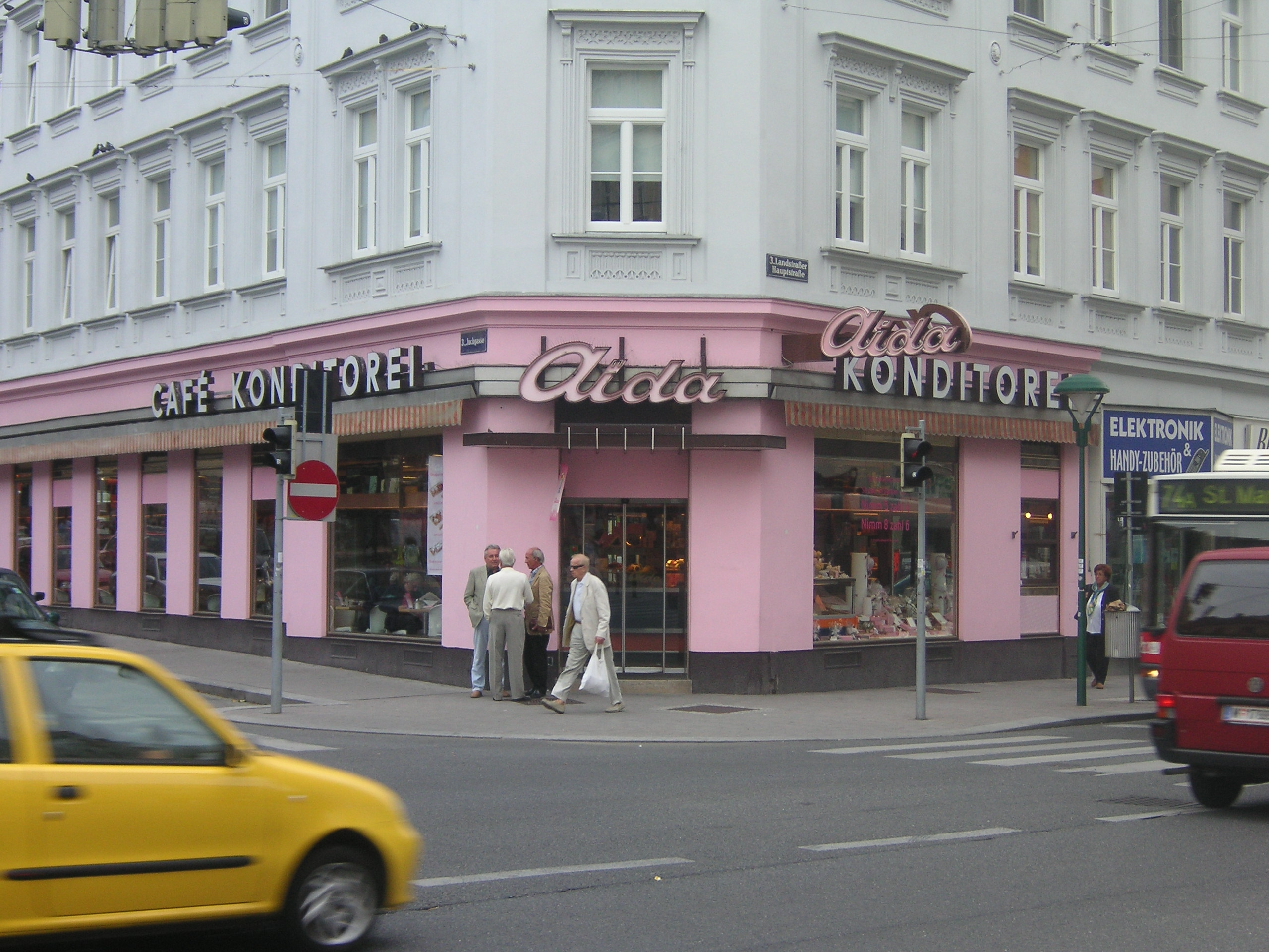 Photo by KF, September 2005.